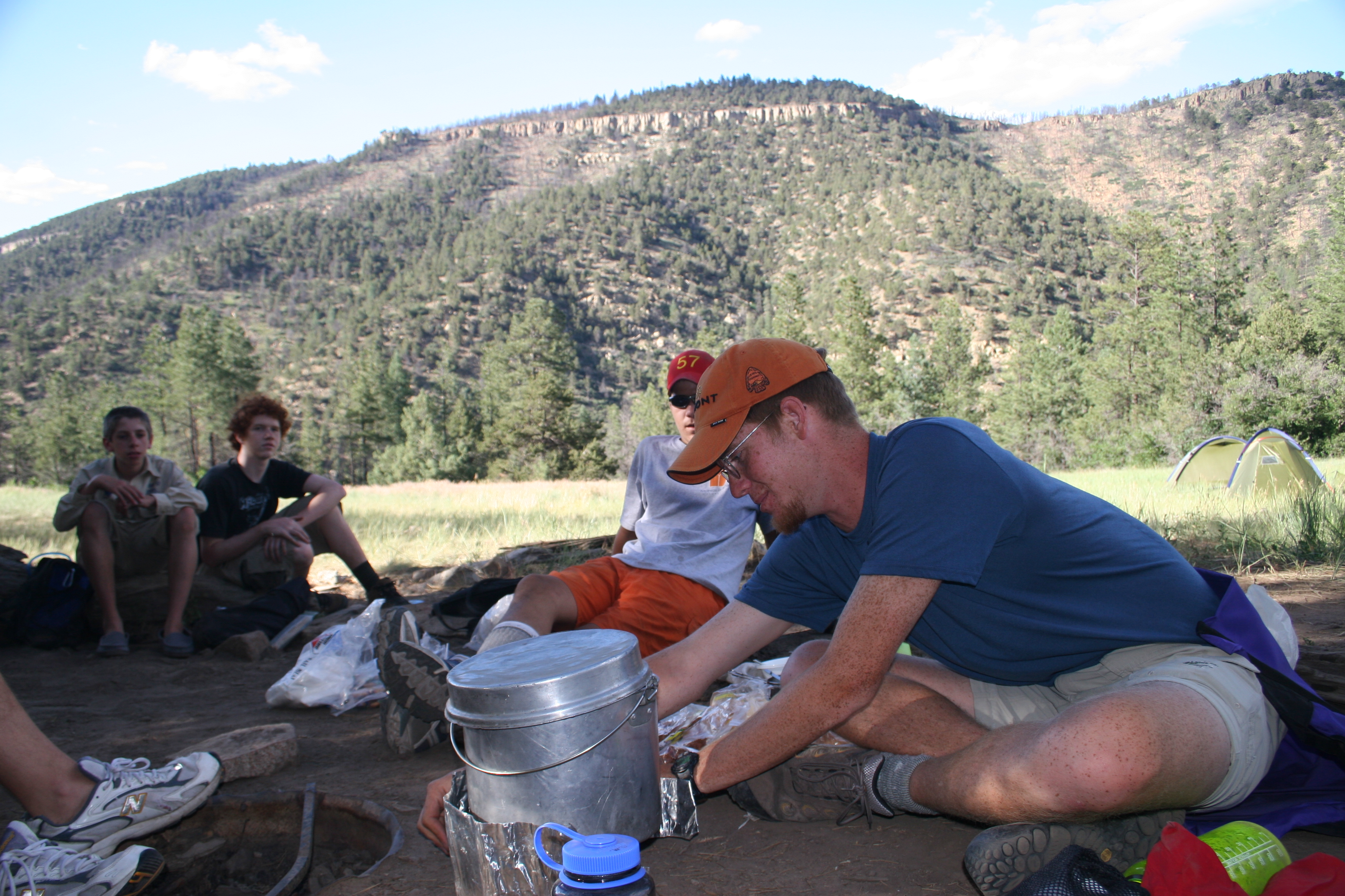 A ranger helps Scouts at the Philmont Scout Ranch.